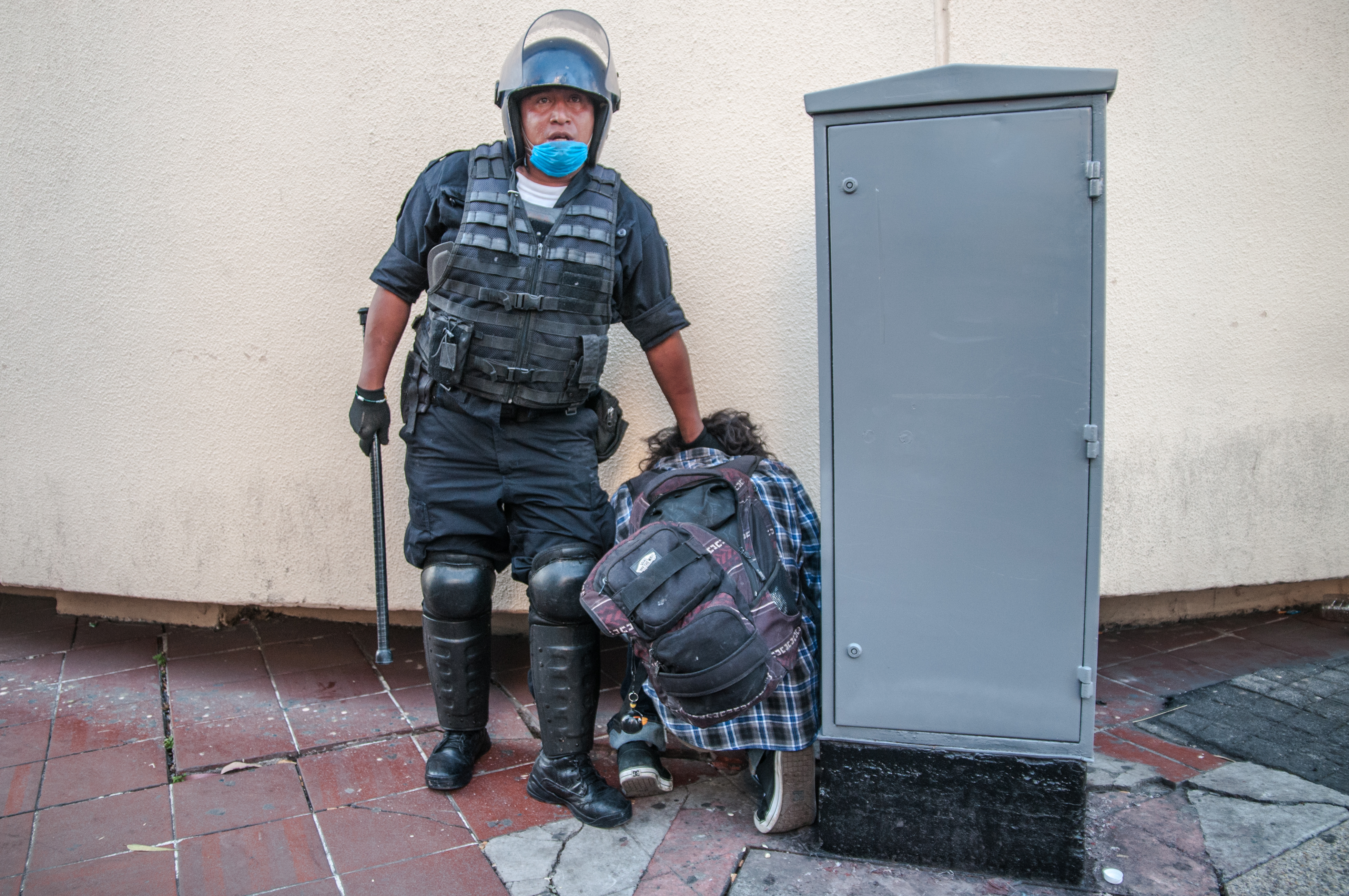 Element of the Grenadier Corps of the Mexico City Police holding a demonstrator